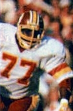 Washington Redskins defensive tackle Darryl Grant pictured in a defensive play during Super Bowl XVII.